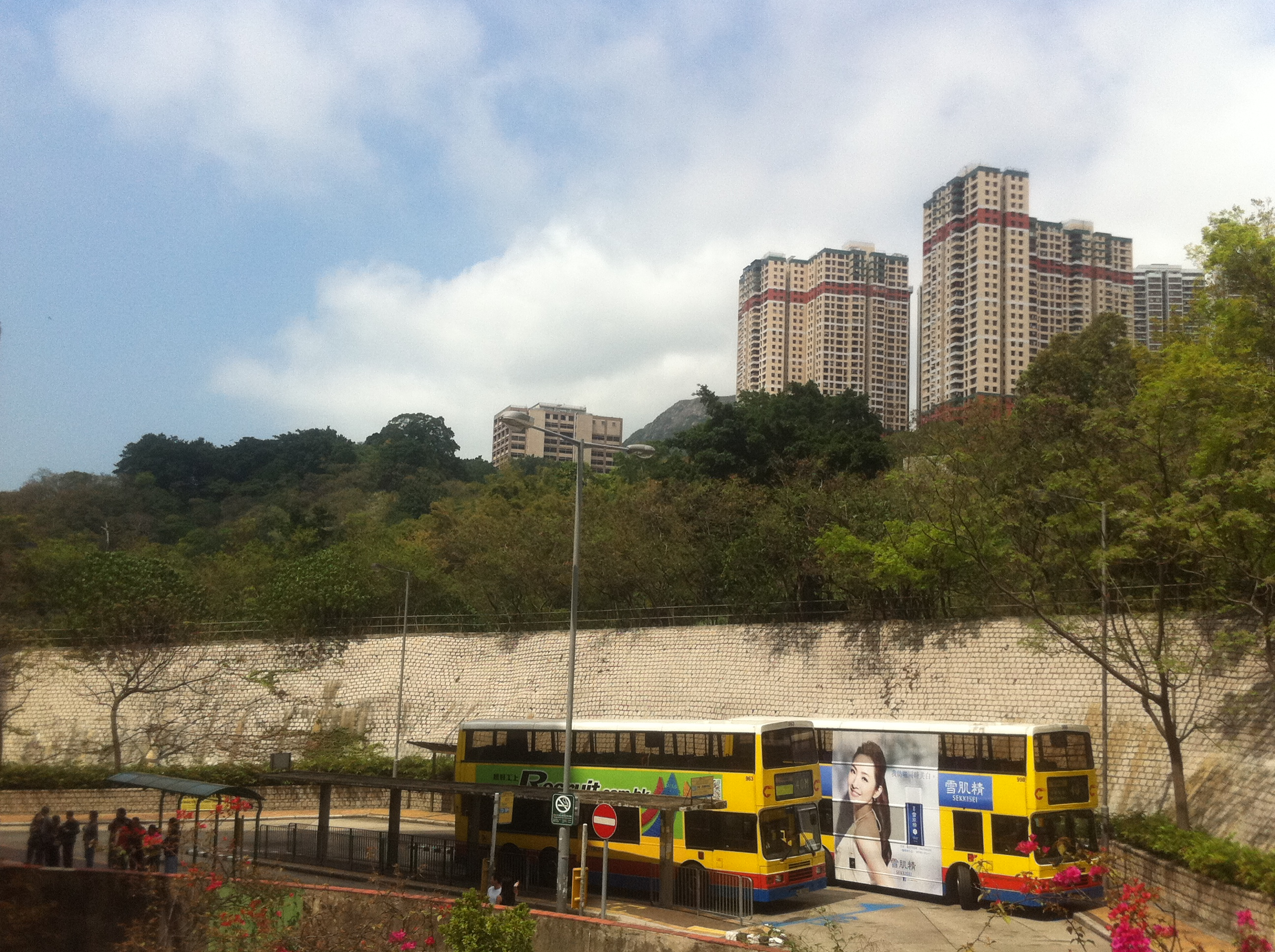 華富邨 Wah Fu Estate North Bus Stops, Hong Kong